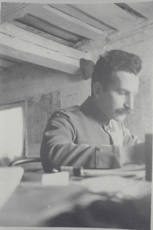 Description: Richard Salomon Creator/Photographer: Unknown Medium: Photograph Date: 1915 Persistent URL: Repository:Leo Baeck Institute Parent Collection: Richard G. Salomon Collection Call Number: AR 3862 Rights Information: No known copyright restrictions; may be subject to third party rights. For more copyright information, click here. See more information about this image and others at CJH Digital Collections.